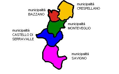 Map of Valsamoggia